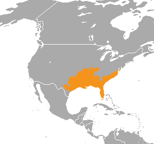 Based on the map currently on the page (File:Agkistrodon-piscivorus--range-map.png) but normalized as the first step in creating a genus map.